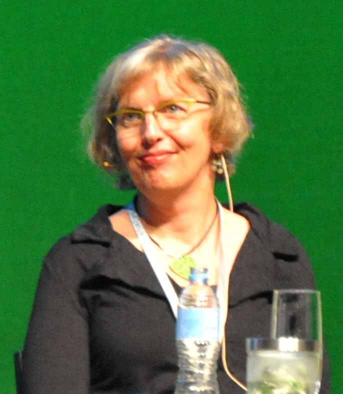 Marion Maddox at the 2012 Global Atheist Convention in Melbourne, Australia